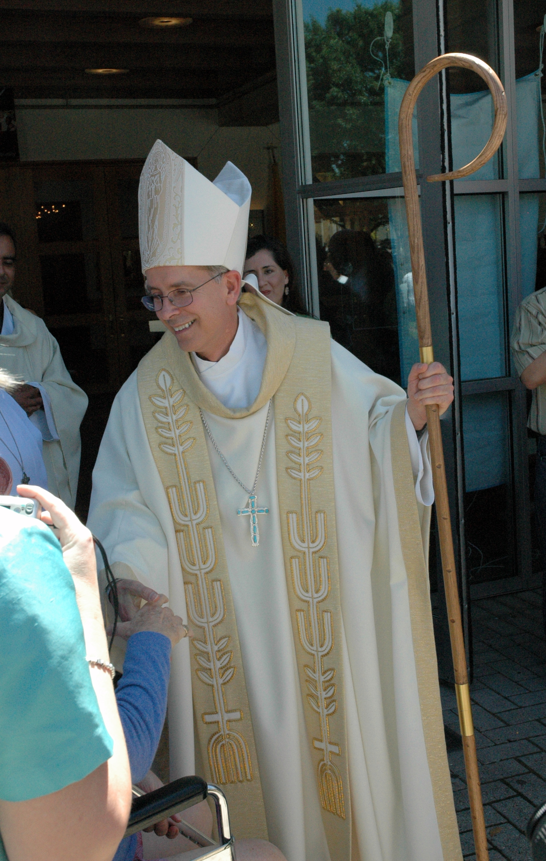 Bishop Mark Seitz greets a parishioner after Mass at St. Rita's Catholic Church on 5/2/2010.